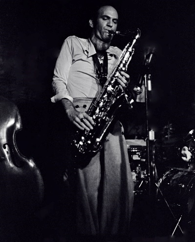 Dave Liebman Storyville - NYC - 1975?